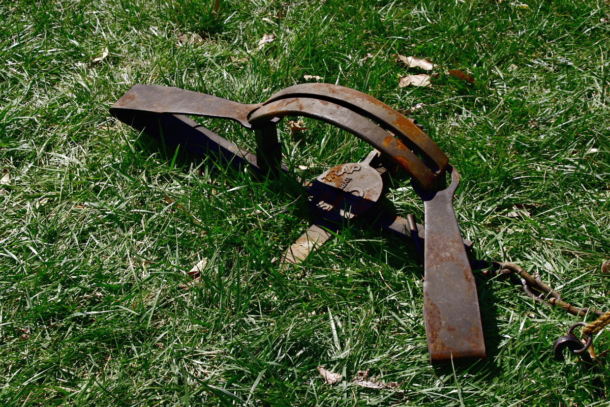 Leghold trap.